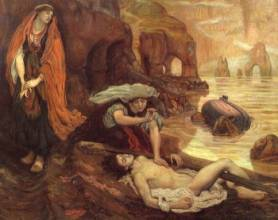 The Finding of Don Juan by Haidee by Ford Madox Brown